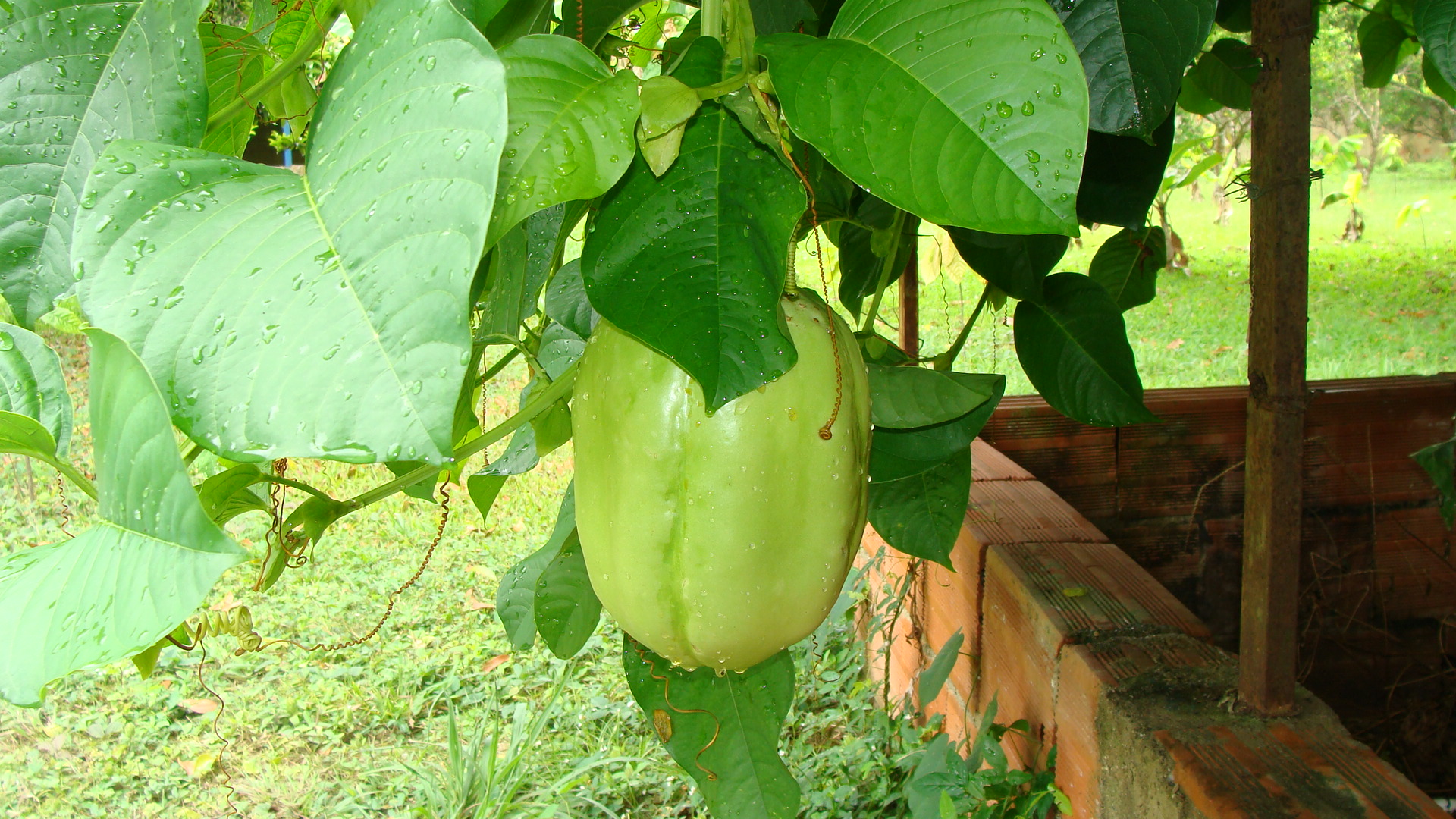 Fruit of Passiflora platyloba